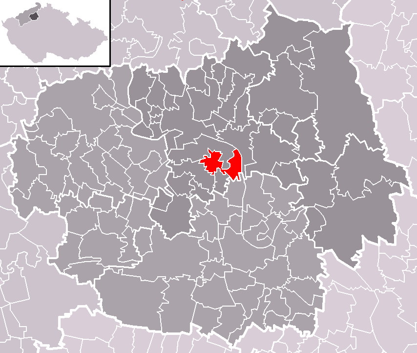 Location of Travčice municipality within Litoměřice District and administrative area of Litoměřice as a Municipality with Extended Competence.